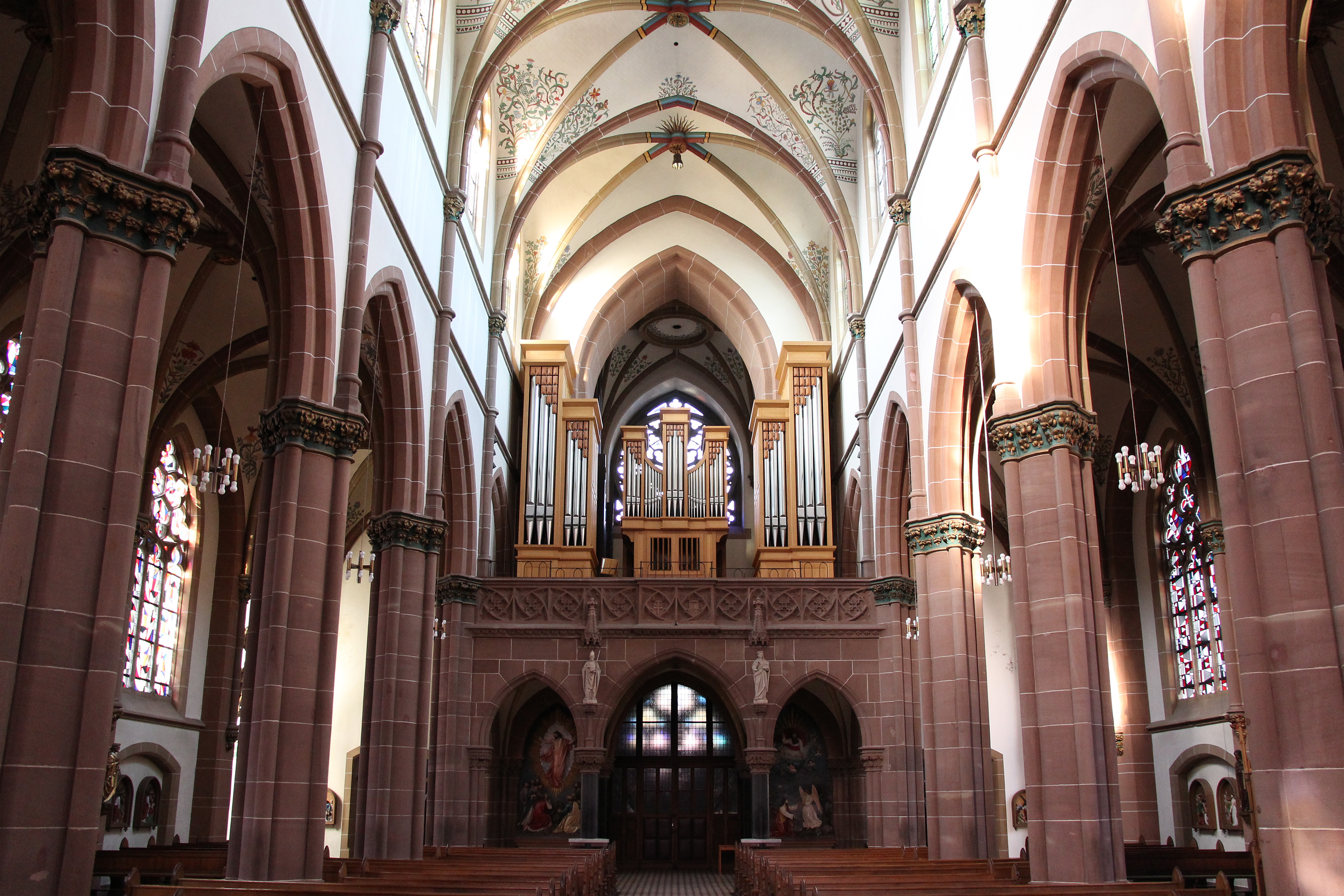 St. Josef church in Koblenz